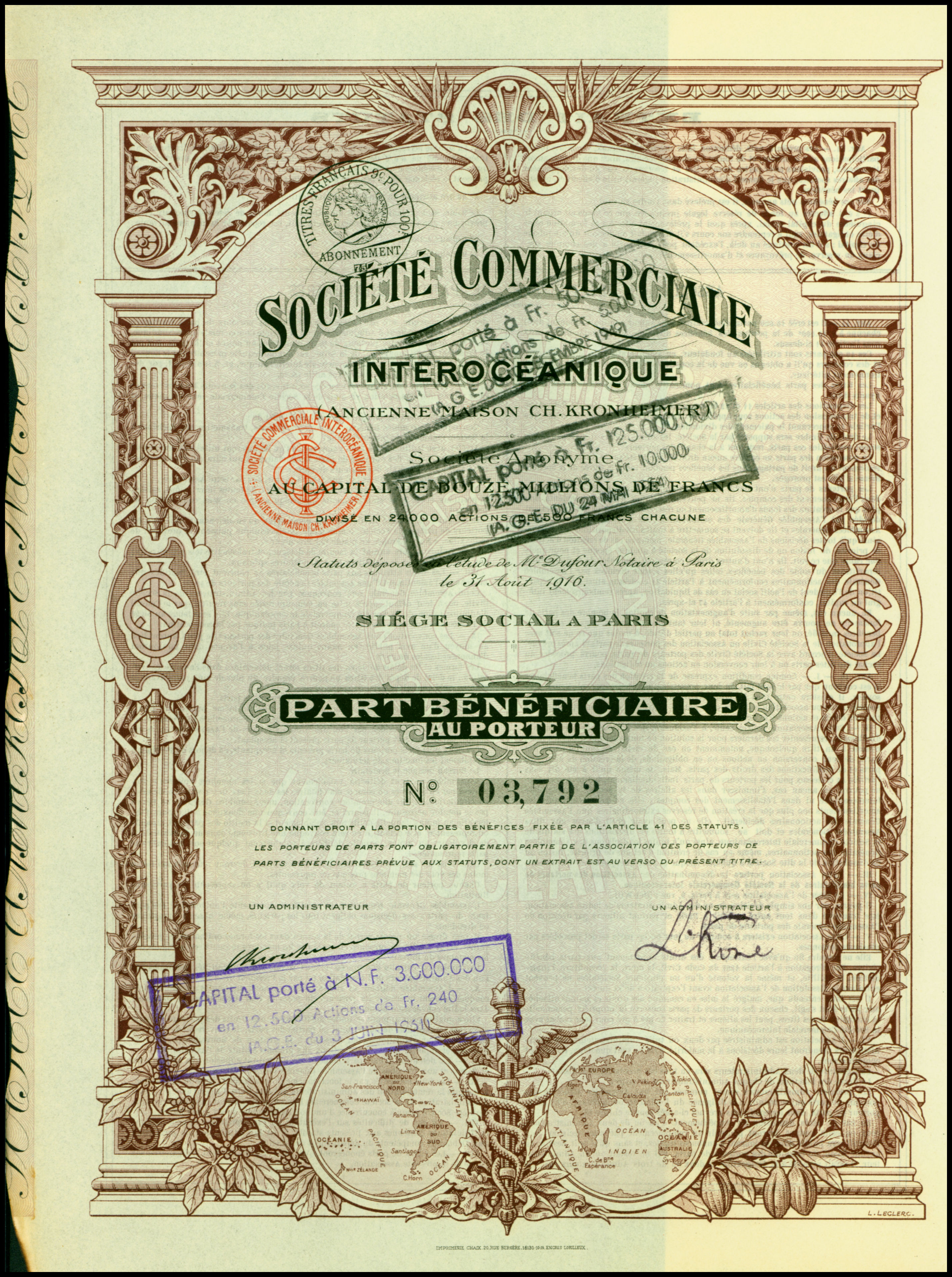 Part Bénéficiaire of the Soc. Commerciale Interocéanique, issued 31. August 1916